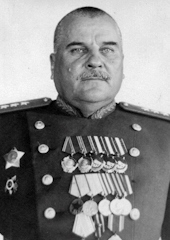 Швецов Василий Иванович (1898 — 1958) — советский военачальник